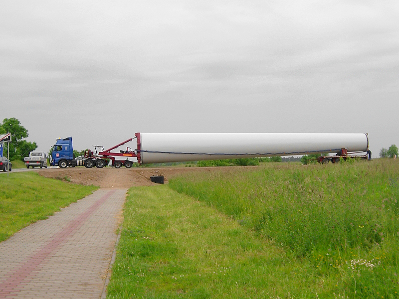 Suwalki Wind Park